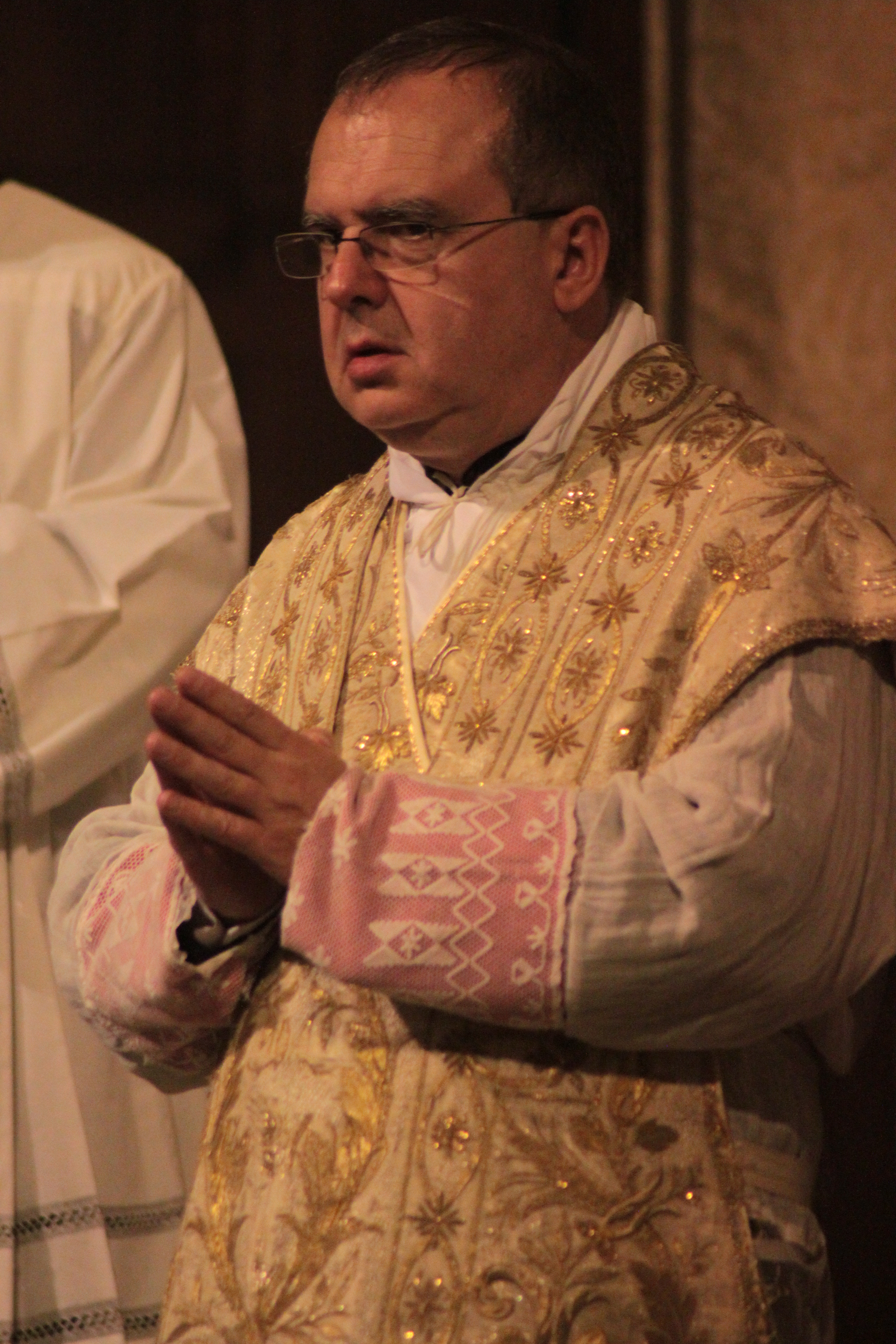 Fr Robert Byrne Cong. Orat., the Provost of the Oxford Oratory